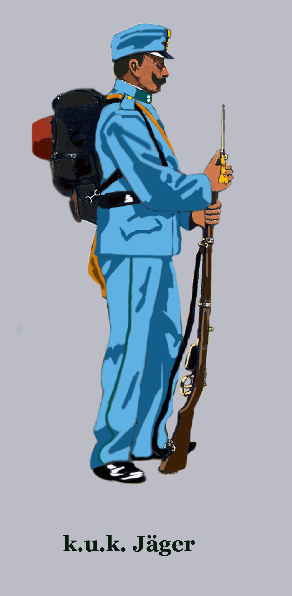 Austria-Hungarian Corporal of the rifles in battledress.